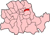 Map of the Metropolitan borough of Bethnal Green, former County of London.